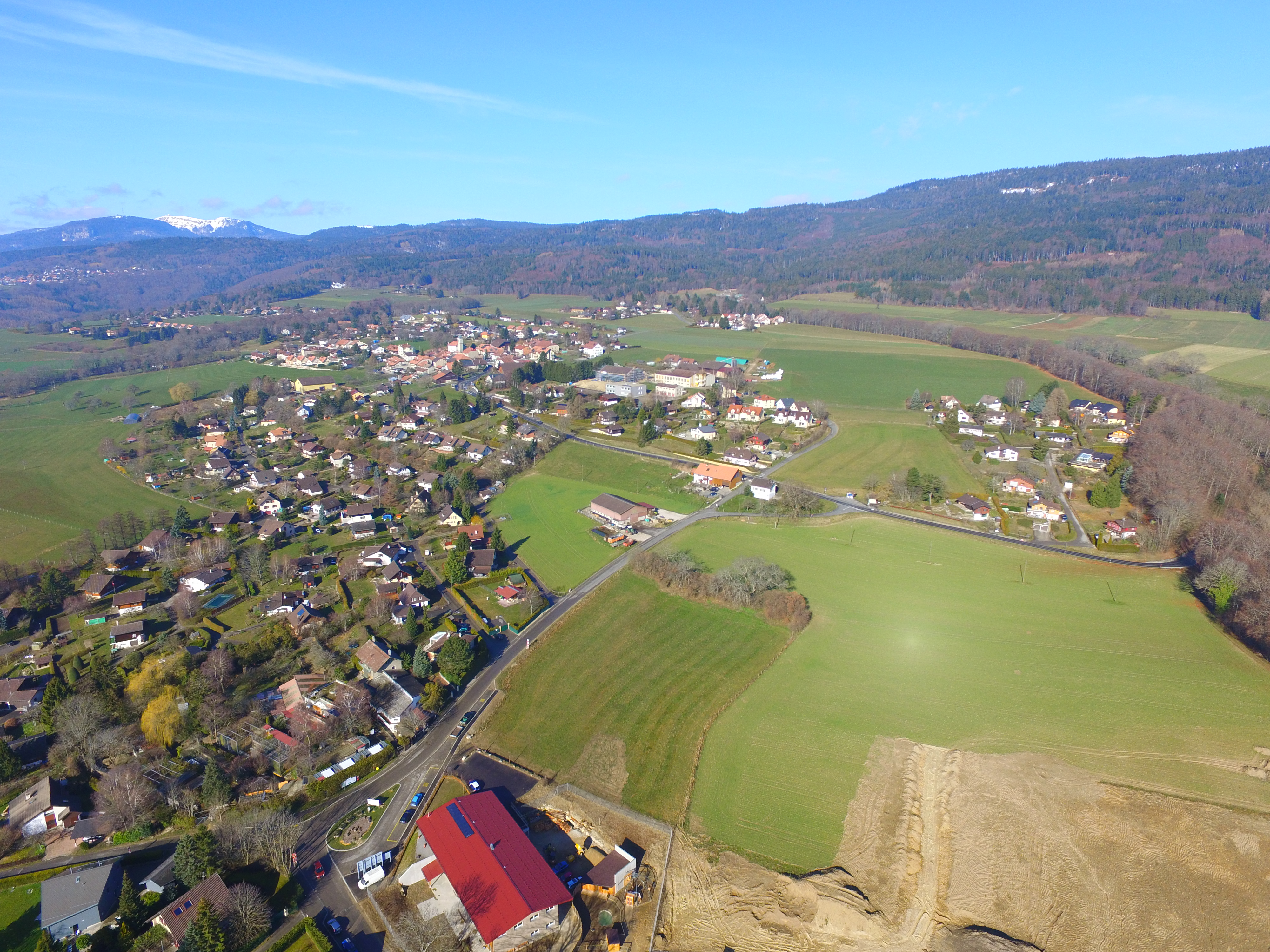 Le Vaud, aerial view